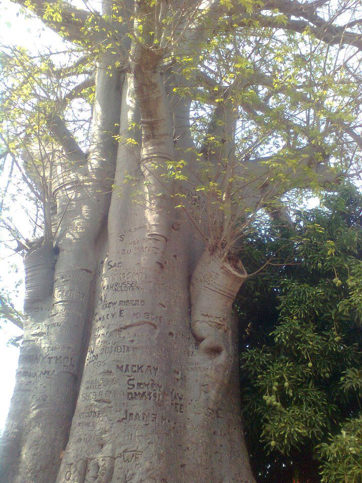 Odadeetree